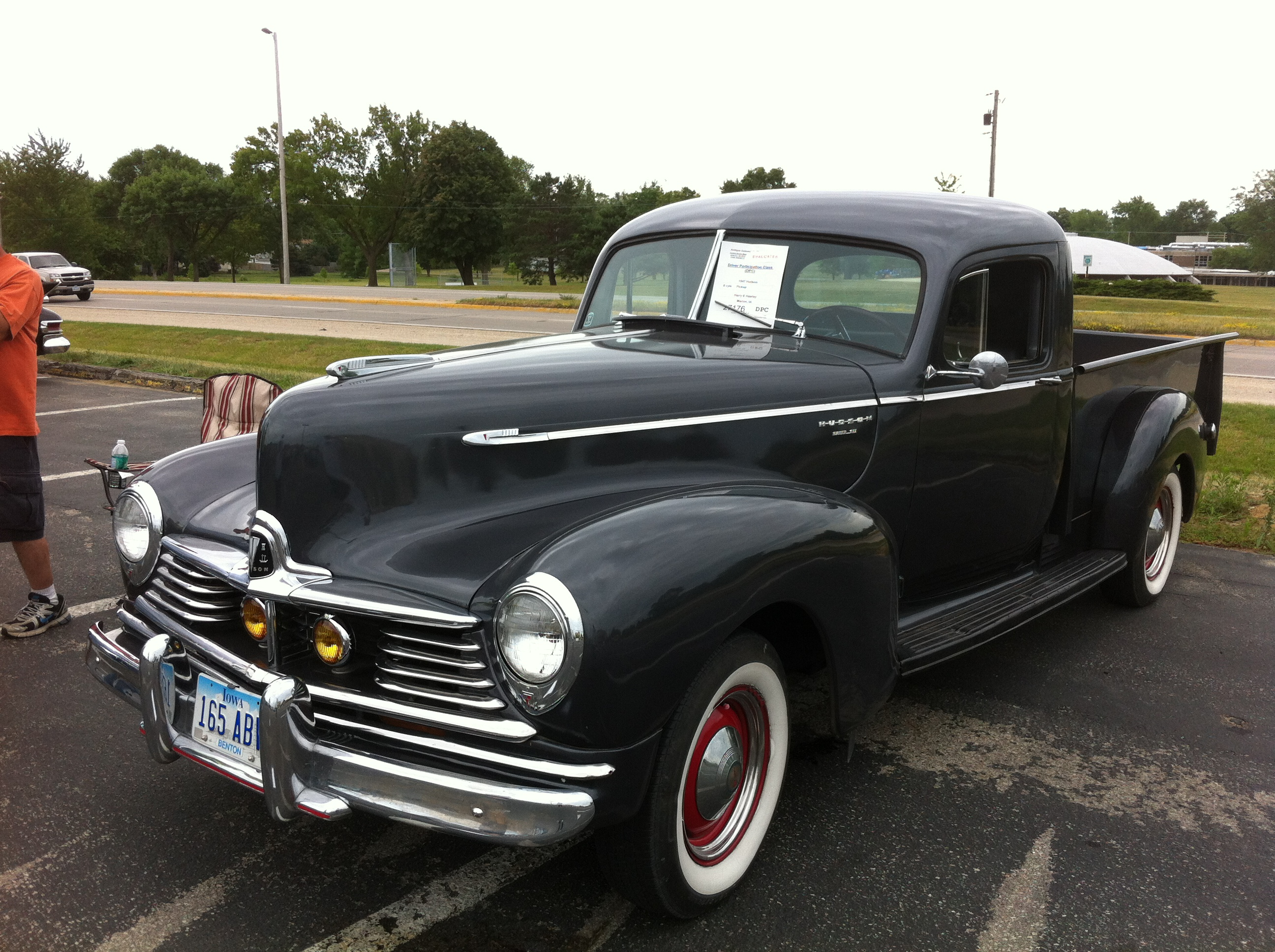 1947 Hudson "Big Boy" a 128-inch (3,251 mm) wheelbase, 3/4-ton pickup truck. This one is equipped with famous Hudson Hornet “Twin H-Power” I6 engine. Picture taken at the 2012 Antique Automobile Club of America (AACA) Central Spring meet in Cedar Rapids, Iowa, USA. Front left view.